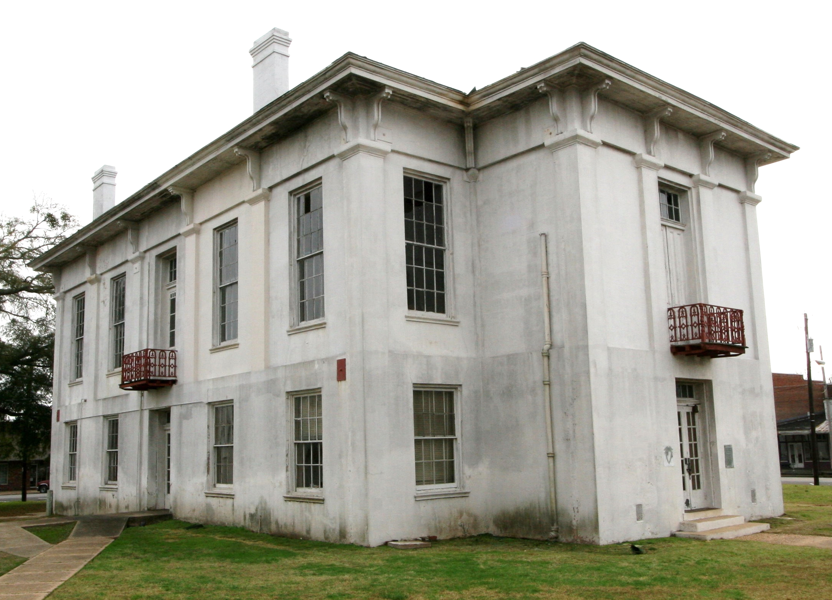 The old Greene County Courthouse in Eutaw, Alabama. It was built in 1869 and ceased to be used when a new courthouse was built in 1993. On the National Register of Historic Places.